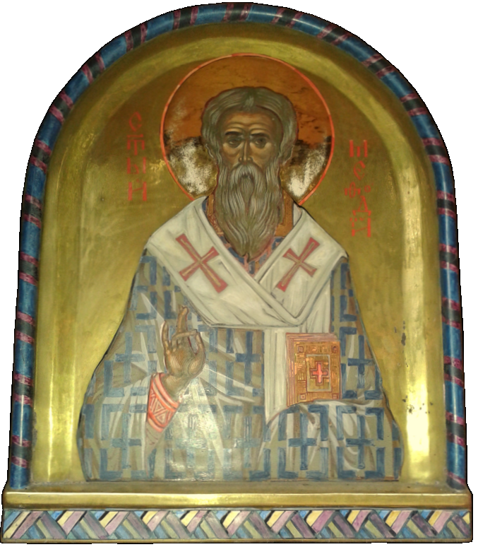 Ceramic icon of Saint Methodius placed on the well located at the foot of The Holy Mount of Grabarka (Podlaskie province, Poland).